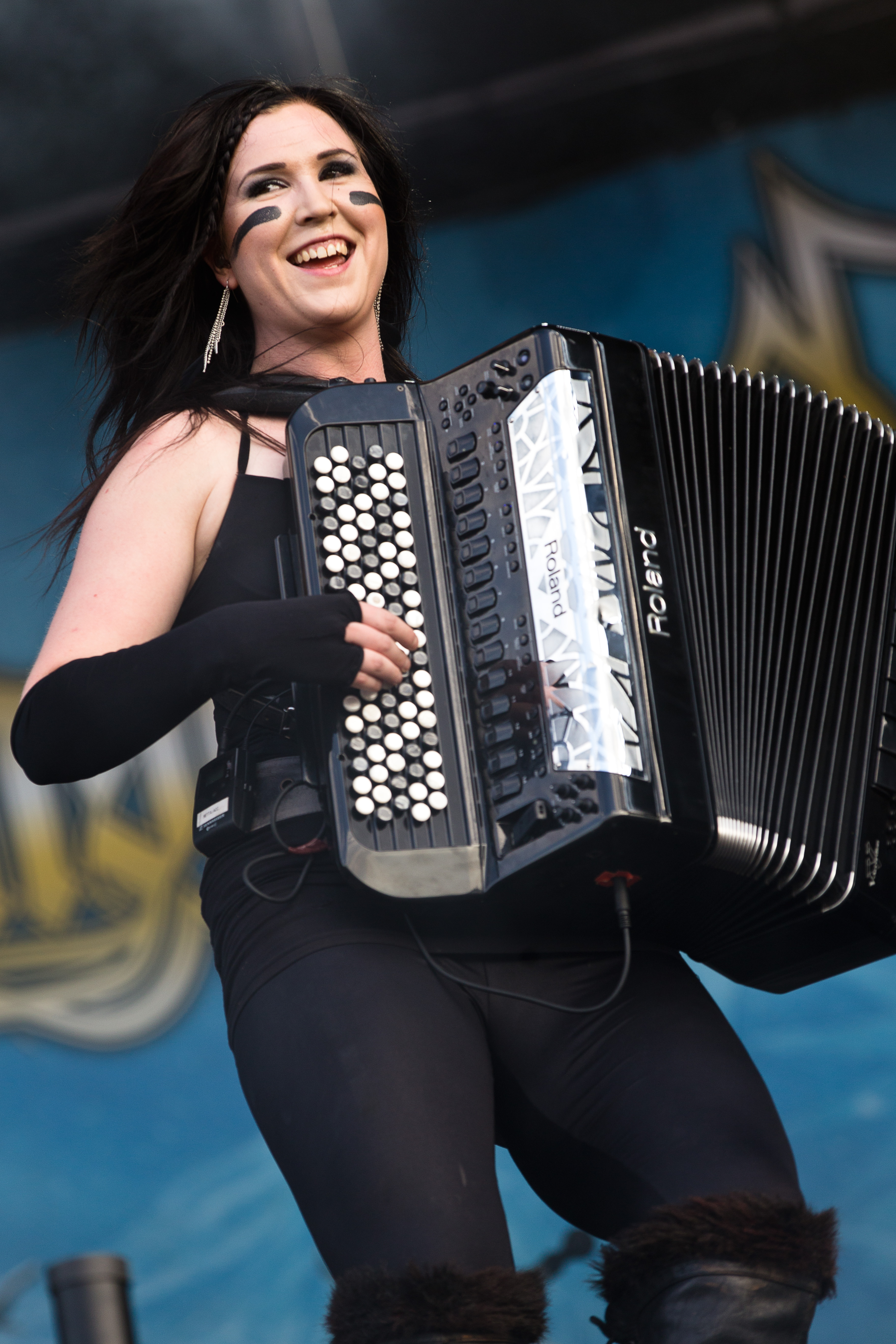 The Finnish folk metal band Ensiferum at the Rockharz Open Air 2016 in Ballenstedt/Germany.